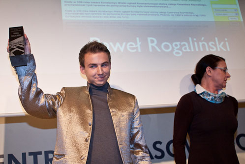 Paweł Rogaliński, Citizen Journalist of the Year 2009 - user's choice